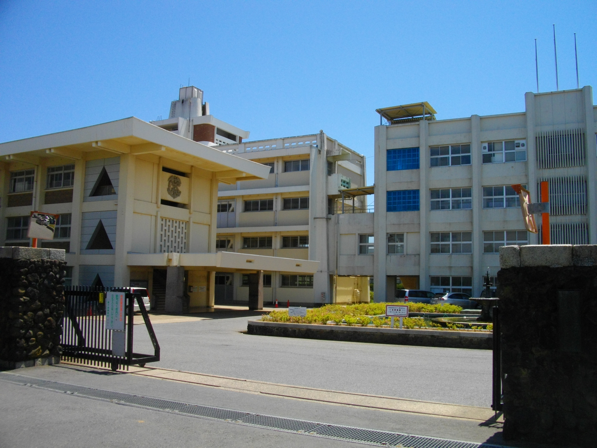 Choshi Commercial High School